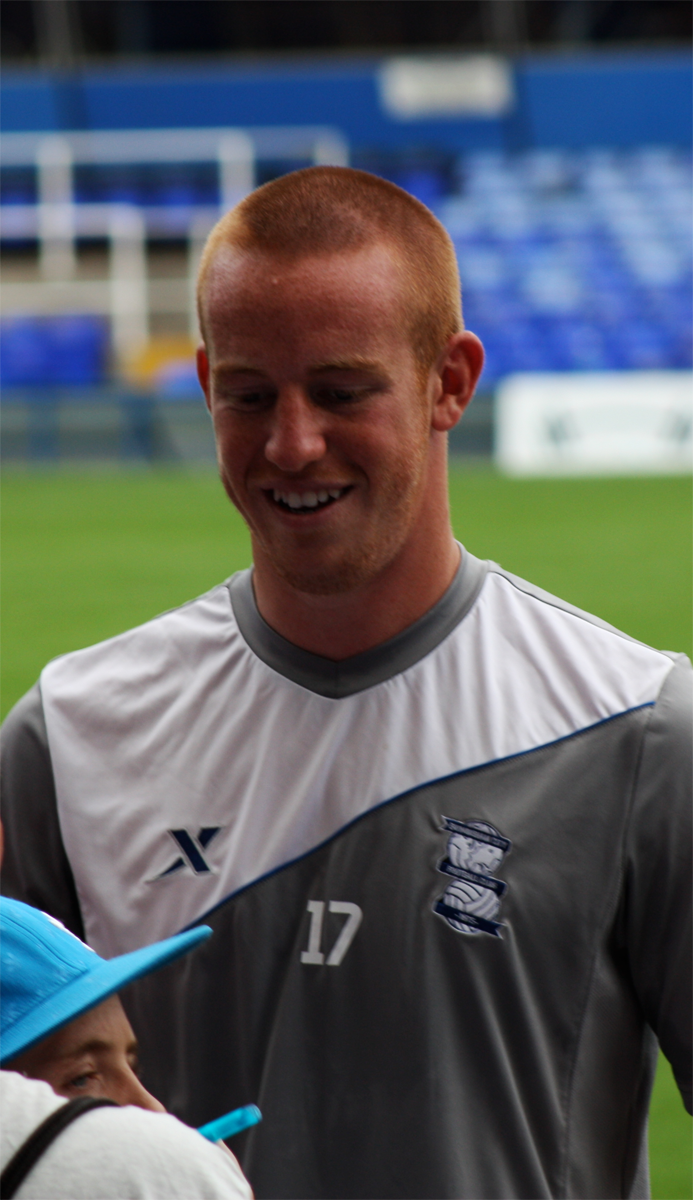 Adam Rooney at Birmingham City open training session at St.Andrews' Stadium.